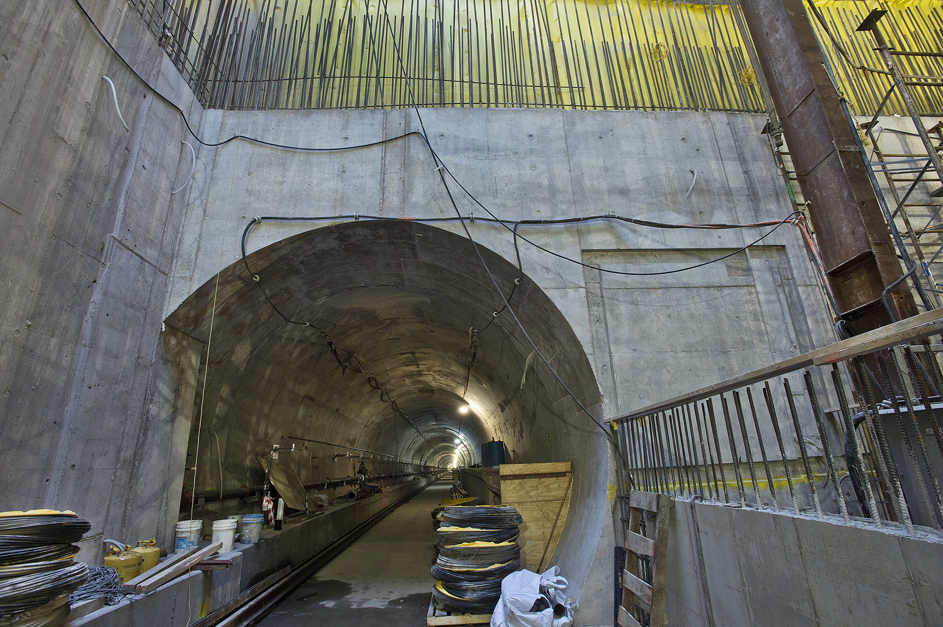 Progress on the Second Avenue Subway as of October 2013. This photo shows the future 86th Street Station. Photo: Metropolitan Transportation Authority / Patrick Cashin